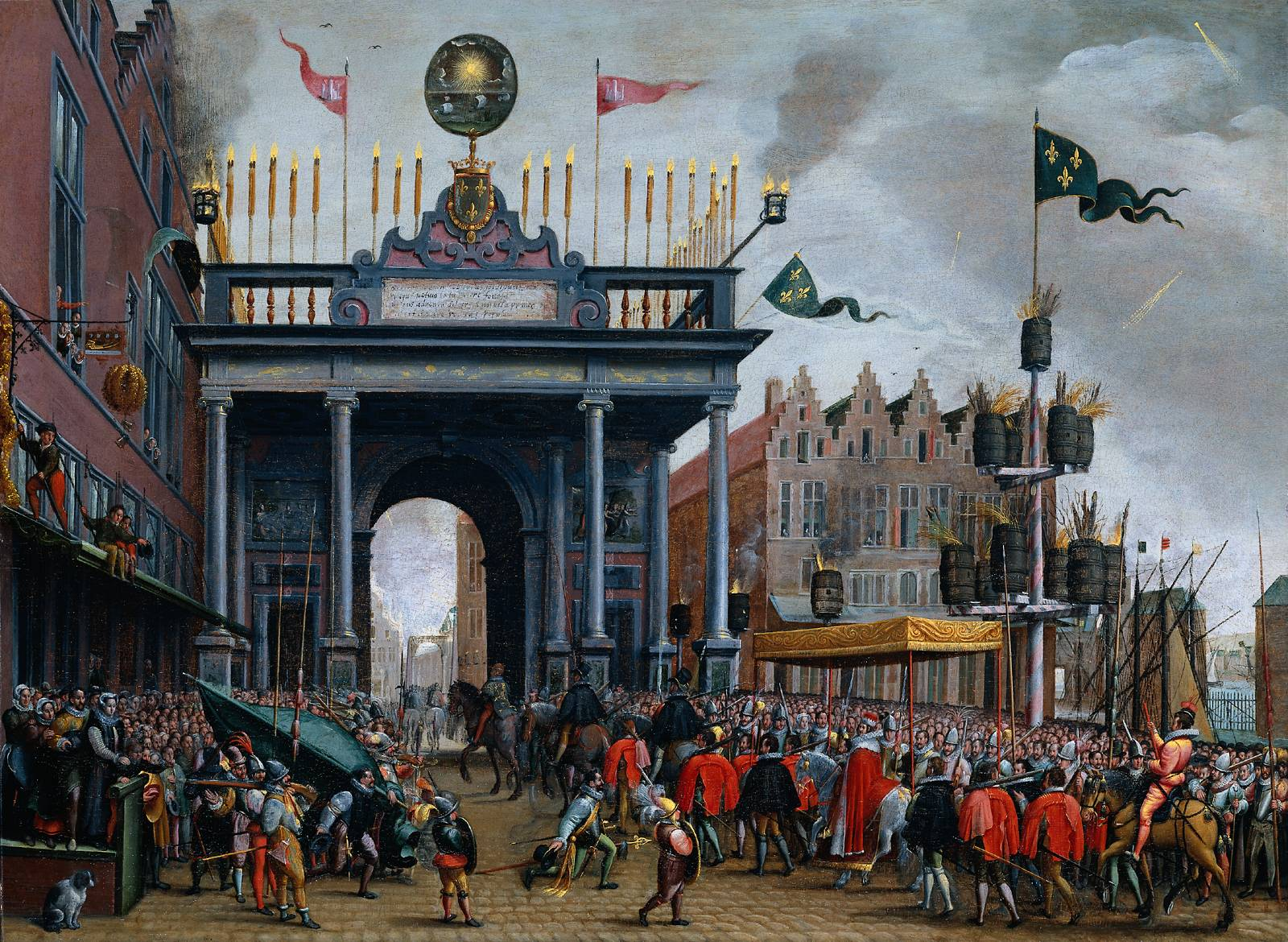 Joyous entry of François, Duke of Anjou (1556-1584) into Antwerp, 19 February 1582, with a triumphal arch on St. Jan's Bridge. Oil painting of a colorful procession of horsemen and infantry on their way to the triumphal arch. Beneath a canopy, the duke is riding a gray, wearing a scarlet coat. Left and right of the procession the procession is separated from the public by militiamen. A captain kneels before the duke. To the right next to a block of houses a glimps of the port of Antwerp. To the right also a construction with barrels of firework.